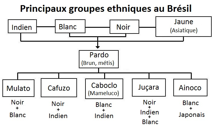 Main ethnic groups in Brazil. Information taken from the following books: *Coelho, Marcos Amorim. Geografia do Brasil. 4. Ed. São Paulo: Moderna, 1996.*Adas, Melhem. Panorama geográfico do Brasil. 1. Ed. São Paulo: Moderna, 1983.*Azevedo, Aroldo. O Brasil e suas regiões. São Paulo: Companhia Editora Nacional, 1971.